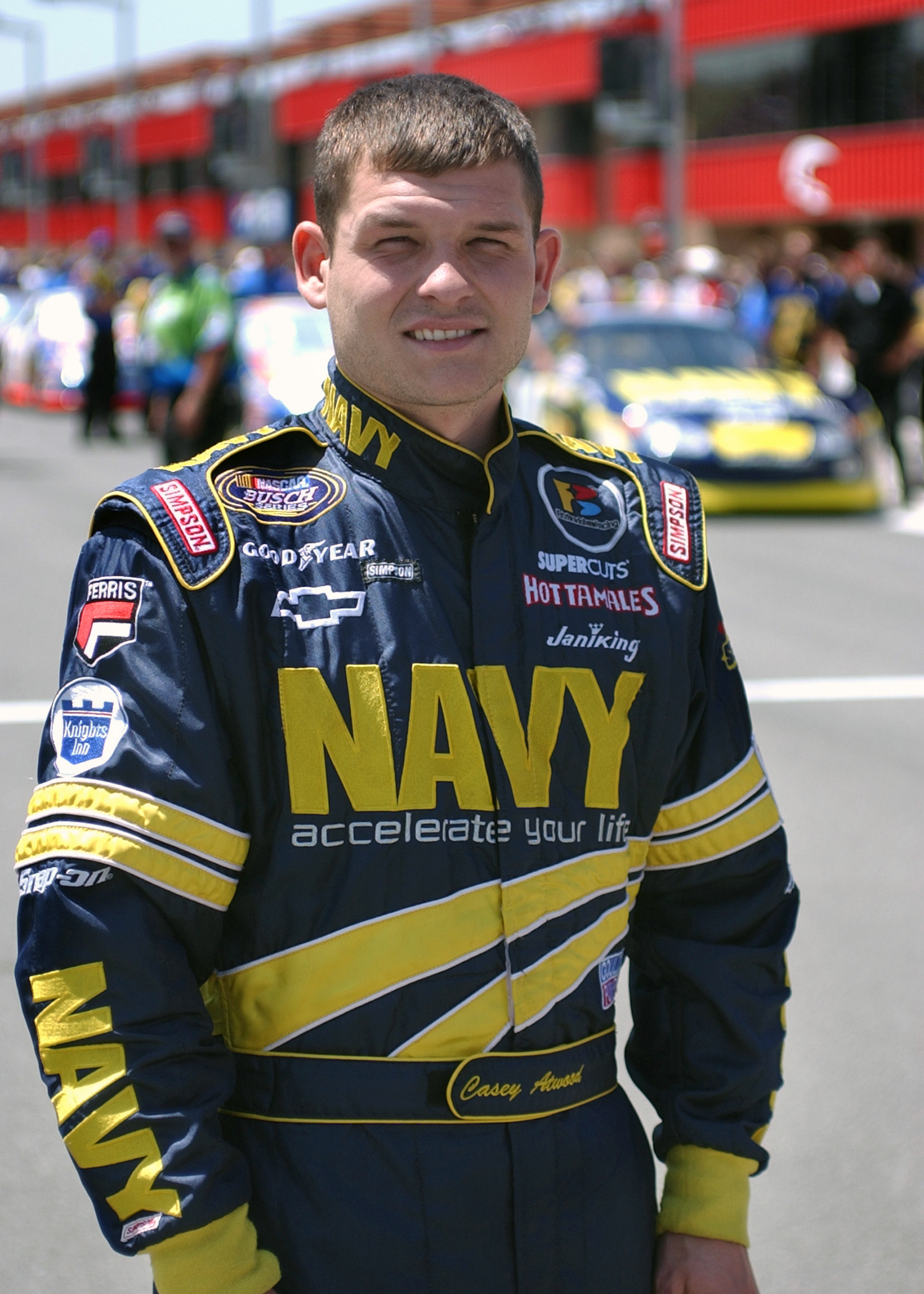 Fontana, Calif. (Apr. 30, 2004) - Driver Casey Atwood stands in front of the Navy-sponsored Chevy Monte Carlo at the California Speedway before the Stater Bros. 300 time trial qualifications begin. The Fitz-Bradshaw owned No. 14 racecar is driven by Casey in the NASCAR Busch Series and is sponsored by the Navy as part of its recruiting effort. Atwood finished 29th in a field of 43 starting drivers.